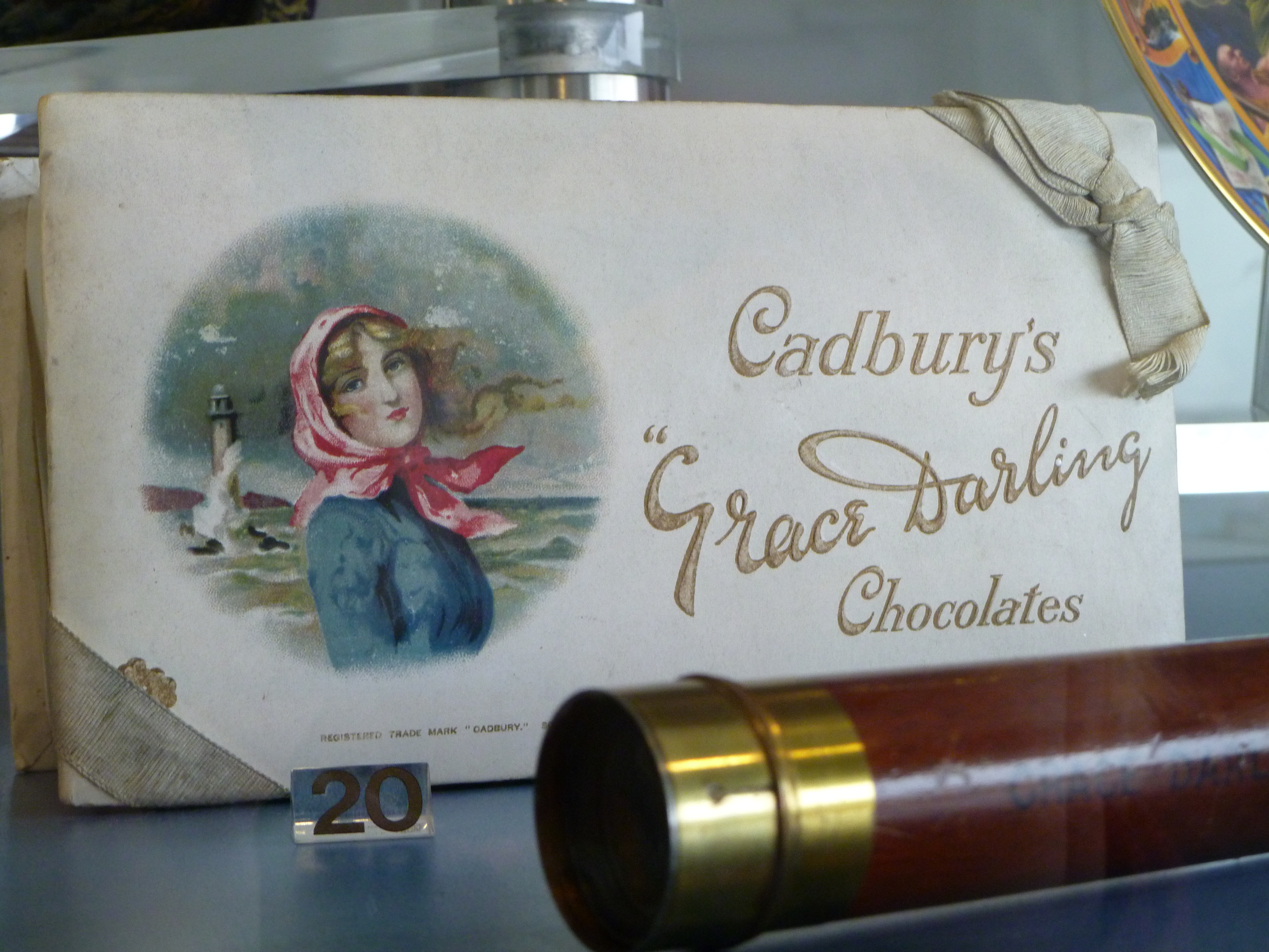 A chocolate bar featuring an image of Grace Darling, a woman from Northumberland, famous for participating in the rescue of survivors from a shipwreck in 1838.